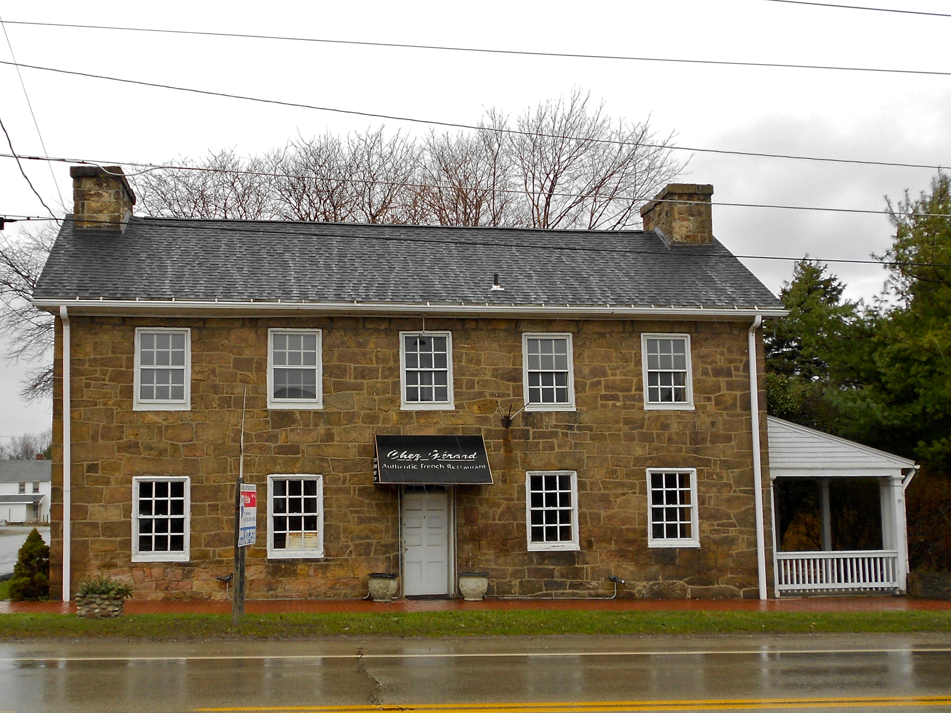 Hopwood-Miller Tavern on the NRHP since November 27, 1995. On U.S. Route 40 (Main Street or the National Road) in Hopwood, South Union Township, Fayette County, Pennsylvania near Uniontown.